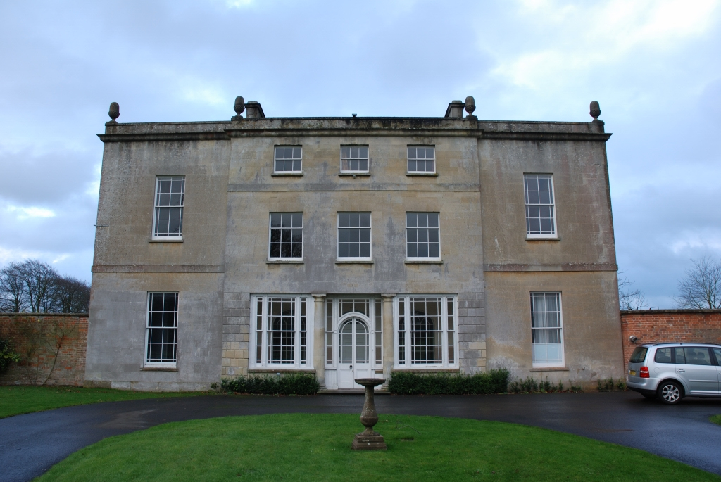 Front of Ashton Gifford House